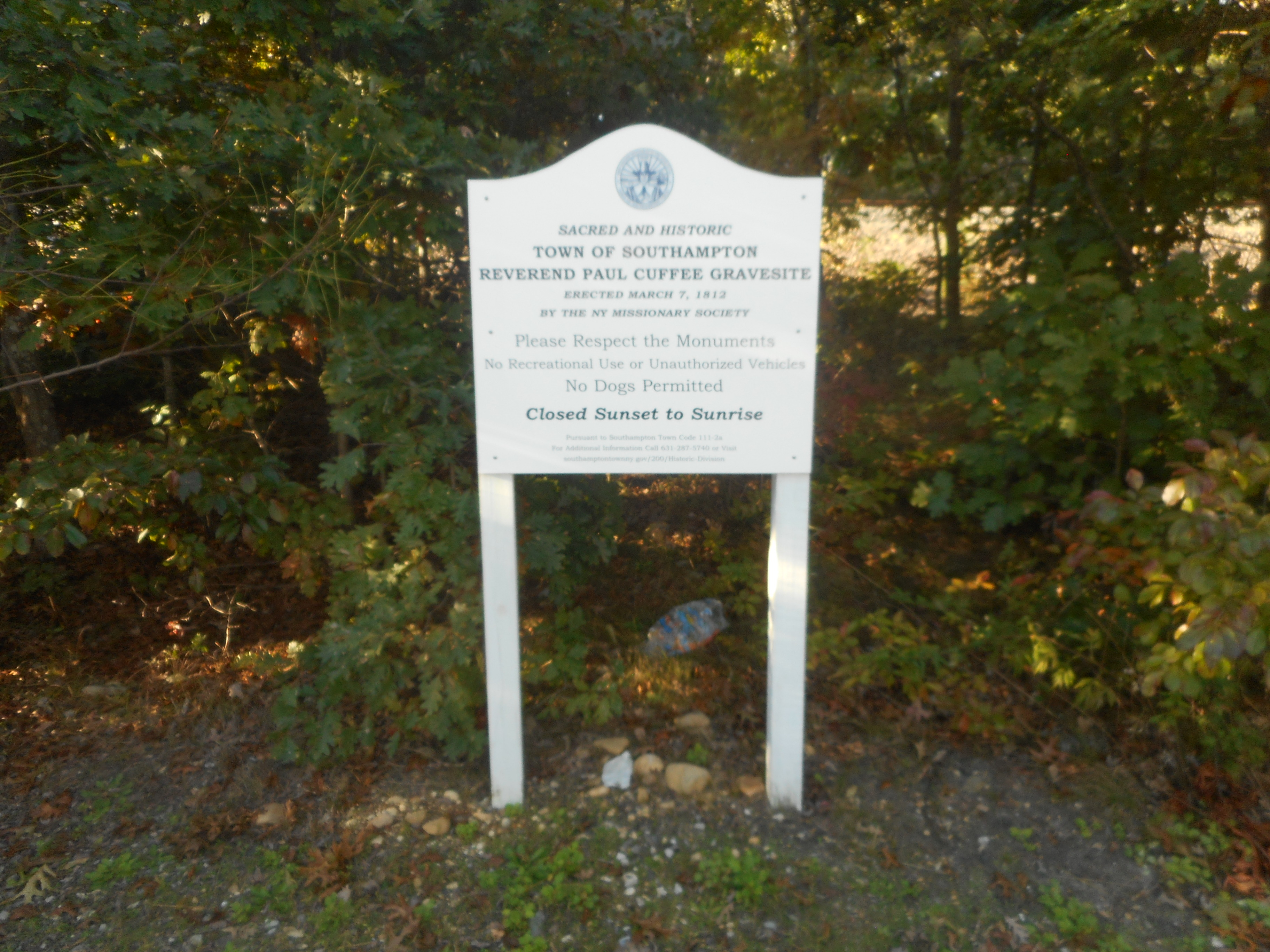 Sign at the dirt parking lot of the historic Reverend Paul Cuffee Gravesite along Montauk Highway (Suffolk CR 80) in Hampton Bays, New York. Both the grave and the parking lot are located in a very small plot of land on a tight embankment between the road and the Montauk Branch of the Long Island Rail Road, and the parking lot is very small. Access to the grave, which is controlled by the Town of Southampton is only available from a trail west of this sign.